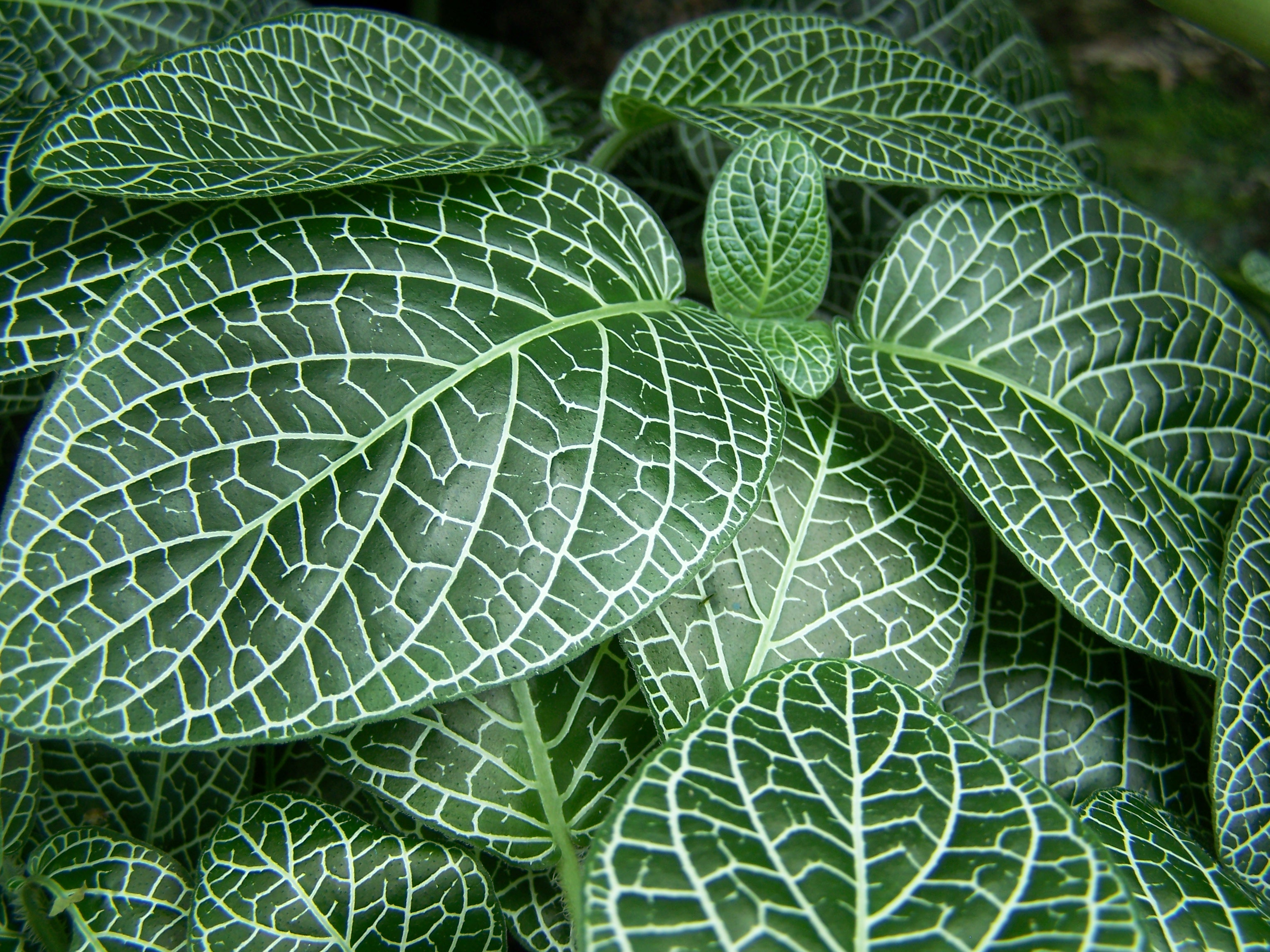 Nerve Plant, grown at the Butterfly Conservatory in Niagara Falls, Ontario, Canada